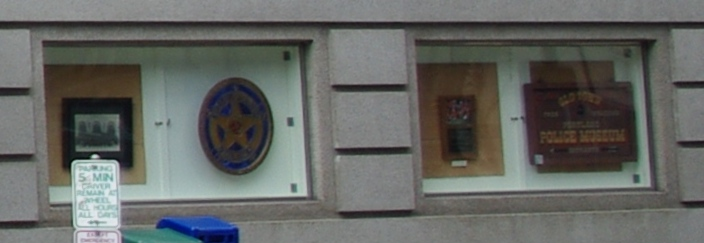 Street display for the Portland Police Museum.